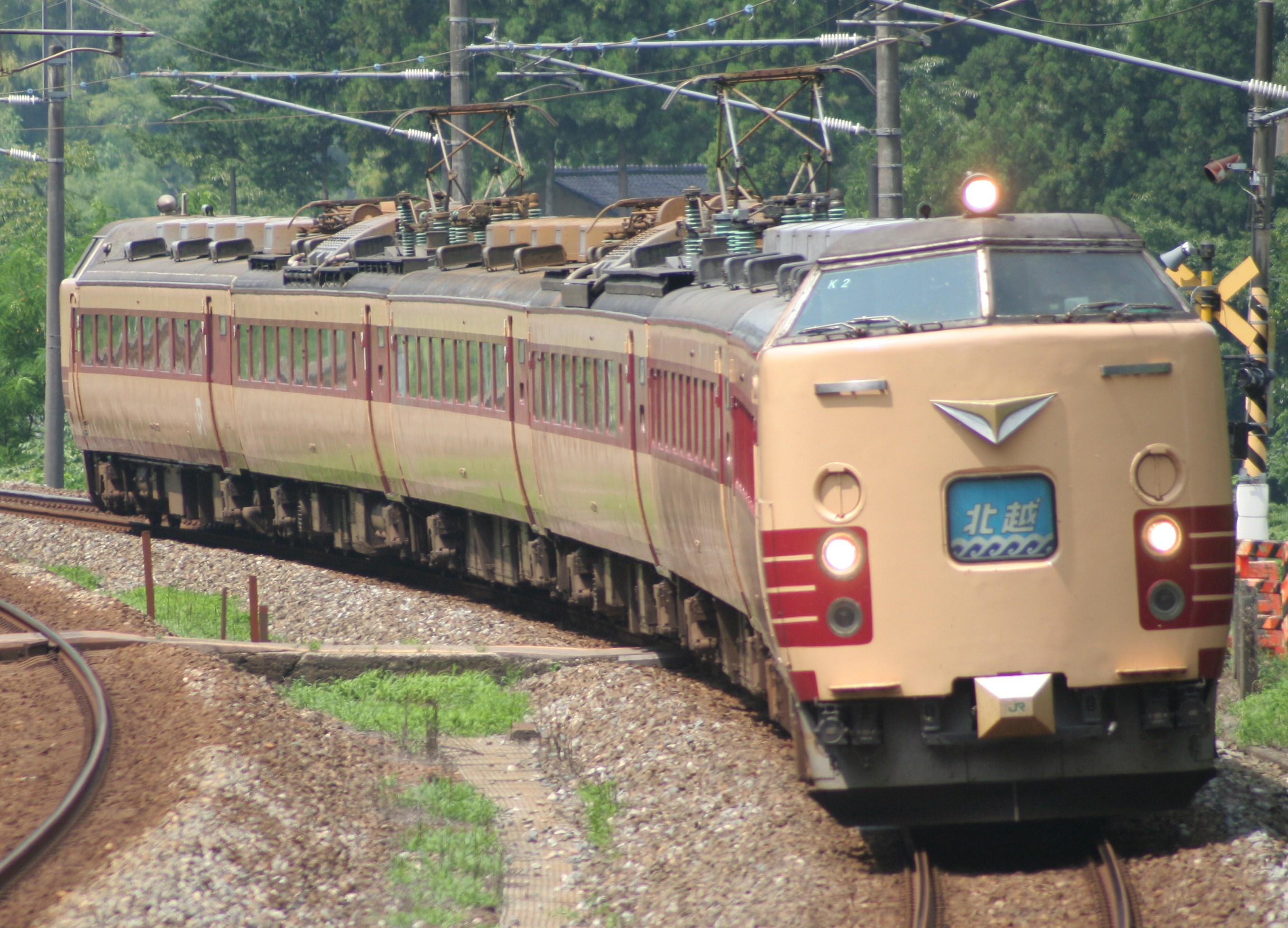 Niigata-based JR East 485 series EMU 6-cat set K2 on a Hokuetsu limited express service